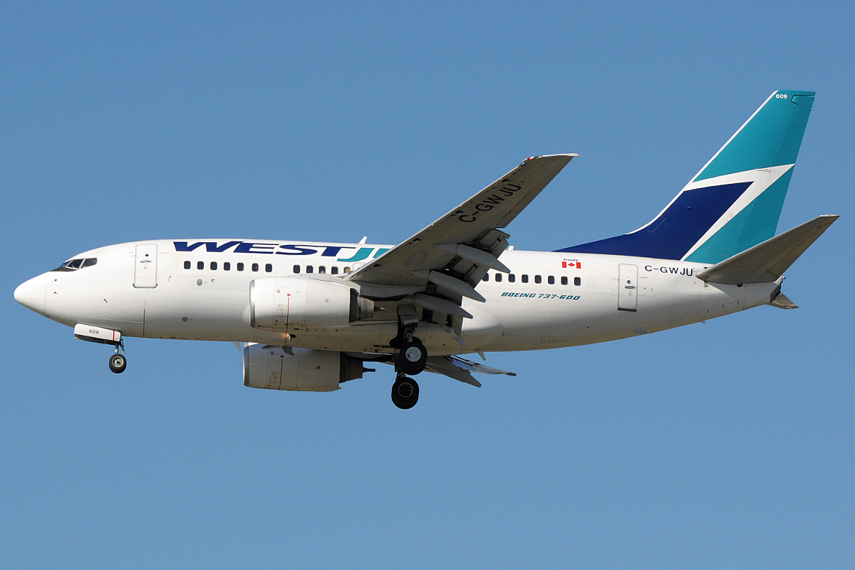 WestJet 737-600 landing in Vancouver Intl Airport